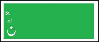 Flag of the Gorani people